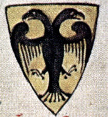 First depiction of the Reichsadler as double-headed (coat of arms of emperor Otto IV from the Chronica Majora, ca. 1250)